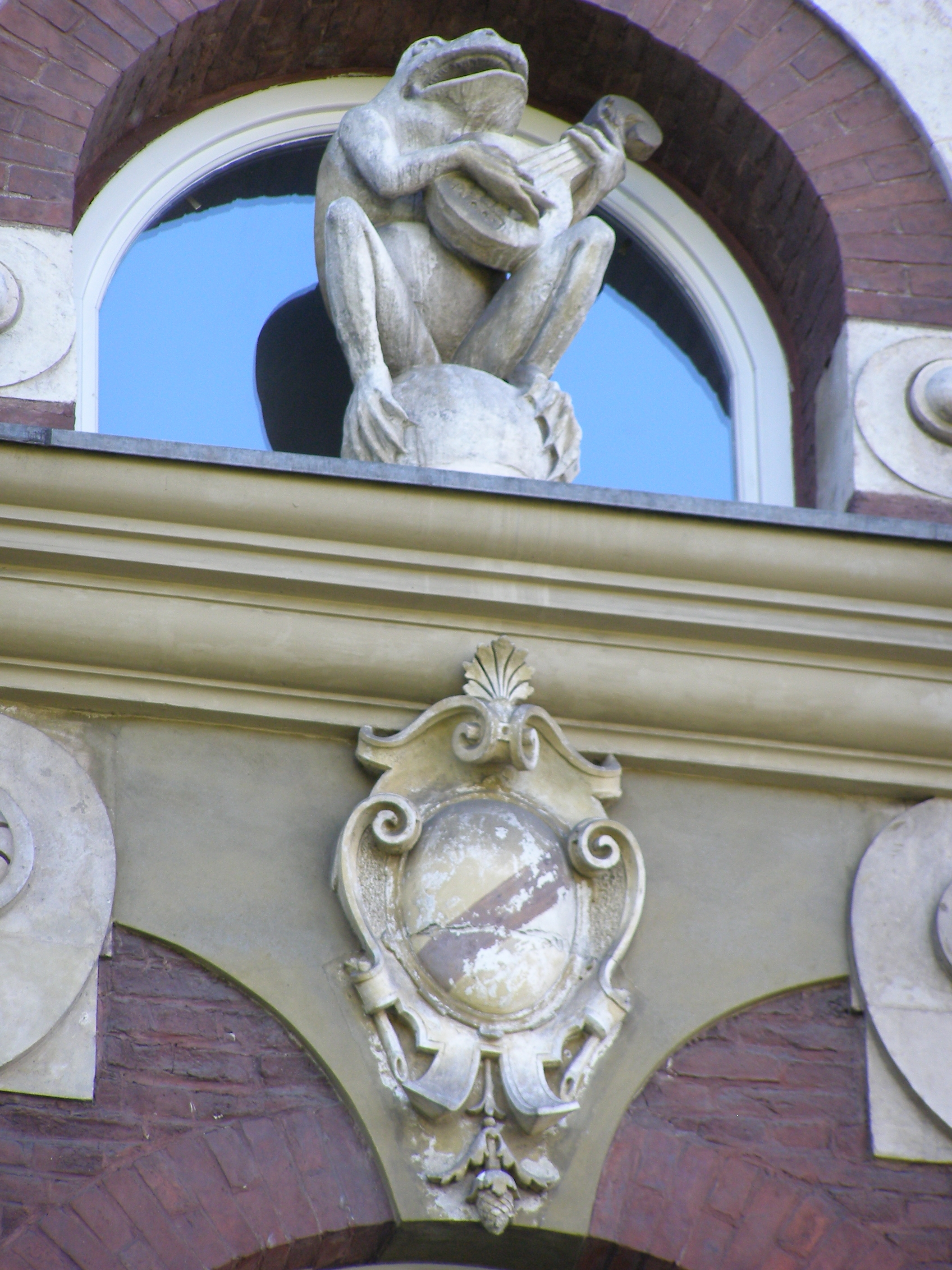 Kraków - house Under the Singing Frog